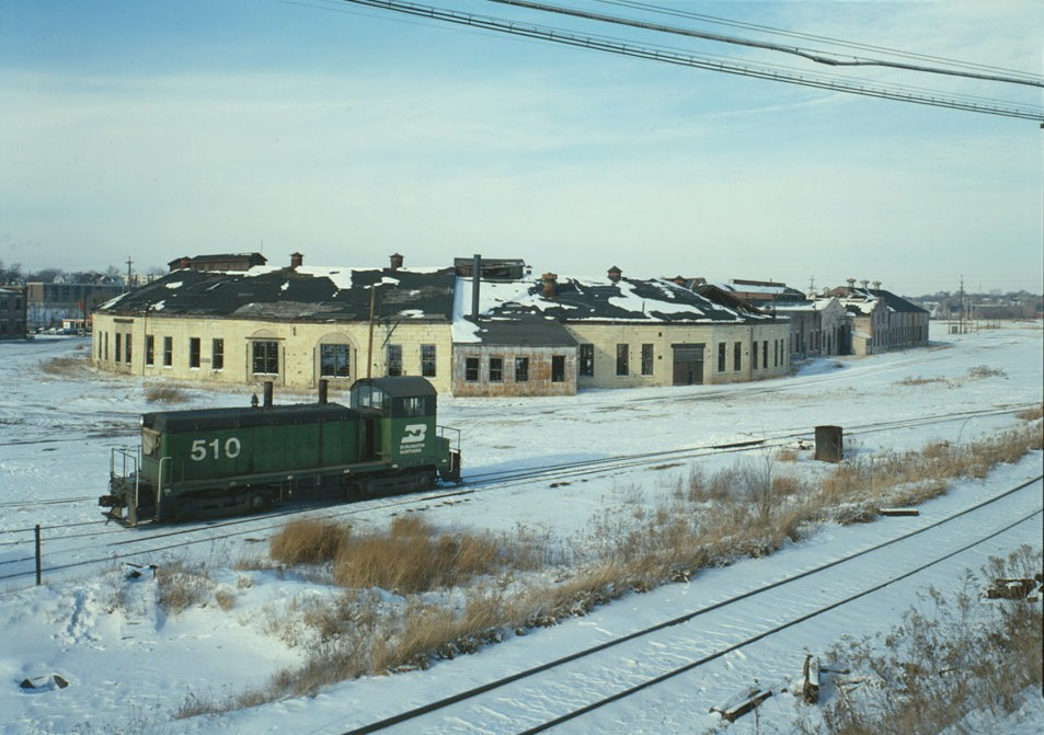 Wide view of center facade, looking south, of Union Station, 50 East Jefferson Street, Joliet, Will County, Illinois. The station was designed by architect Jarvis Hunt. Historic American Buildings Survey, The Library of Congress, Washington, D. C.